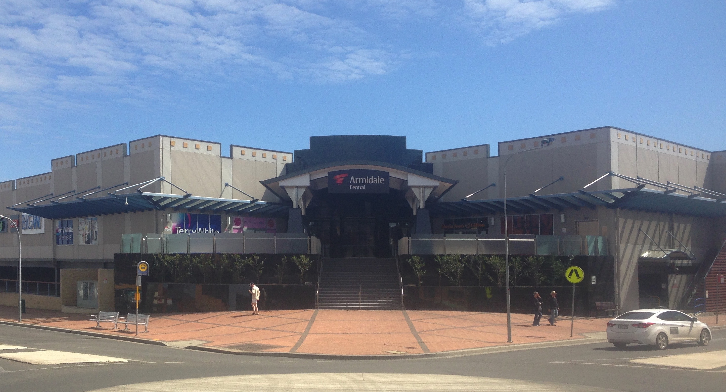 Central shopping complex, Armidale NSW